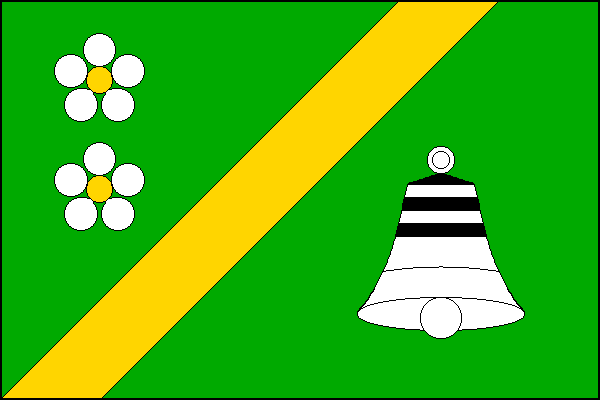 Municipal flag of Rostěnice-Zvonovice village, Vyškov District, Czech Republic.